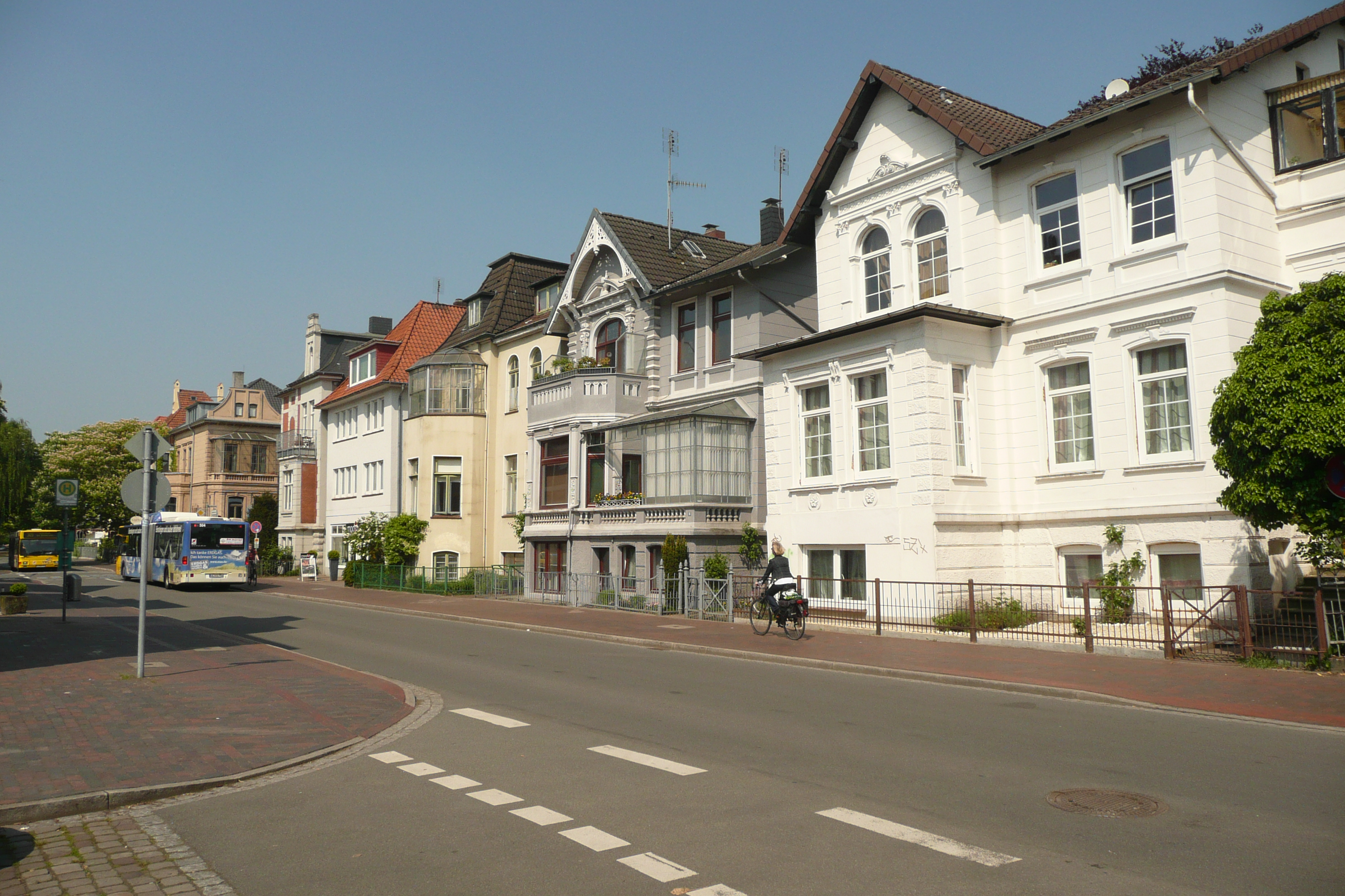 Streetscene from the Dobben Quarter in Oldenburg